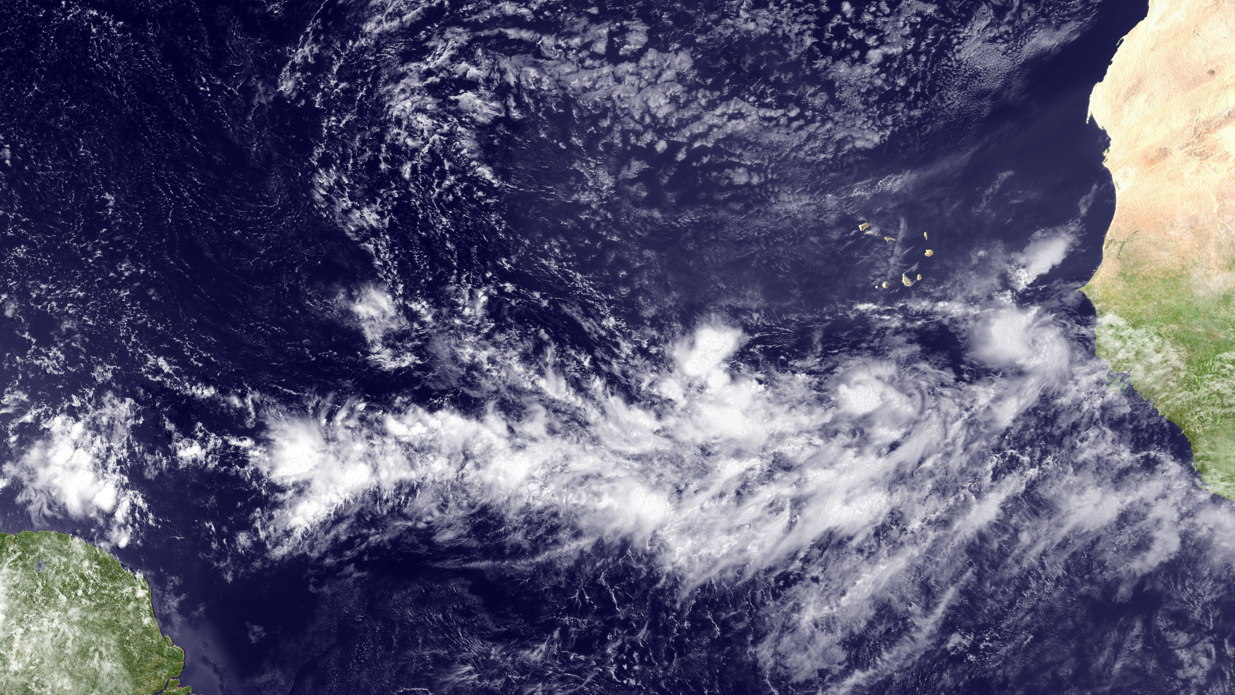 An area of convective activity is located south-southwest of the Cape Verde Islands. The National Hurricane Center says that the system is slowly becoming better organized and a tropical depression could form during the next 48 hours.